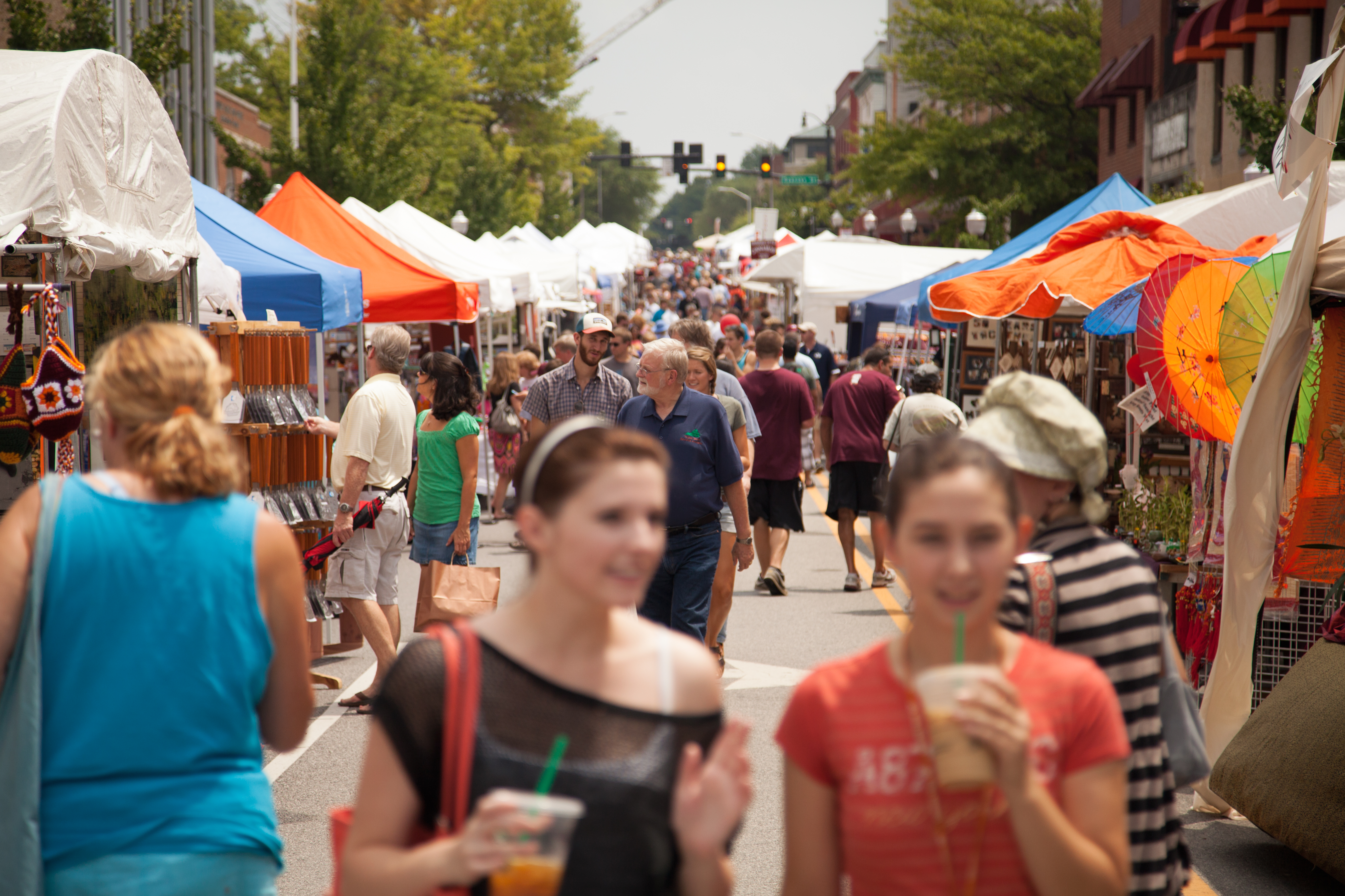 Steppin' Out 2012